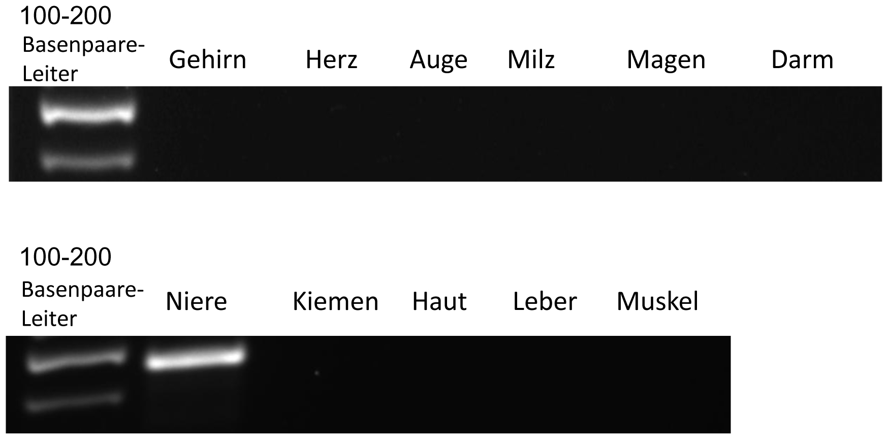 mRNA expression of gulonolactone oxidase (gulo) from the brain, heart, eye, spleen, stomach, intestine, kidney, gills, skin, liver and muscle of Himantura signifer kept in freshwater.